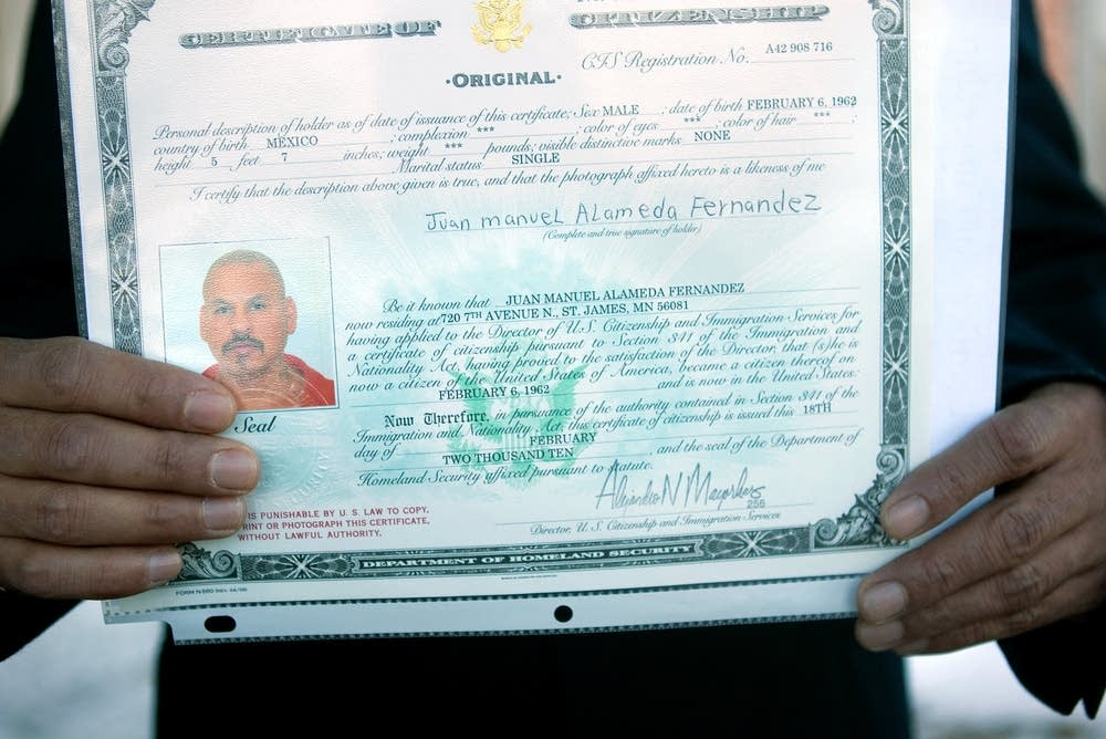 Juan Alameda holding up his certificate of derivative citizenship.